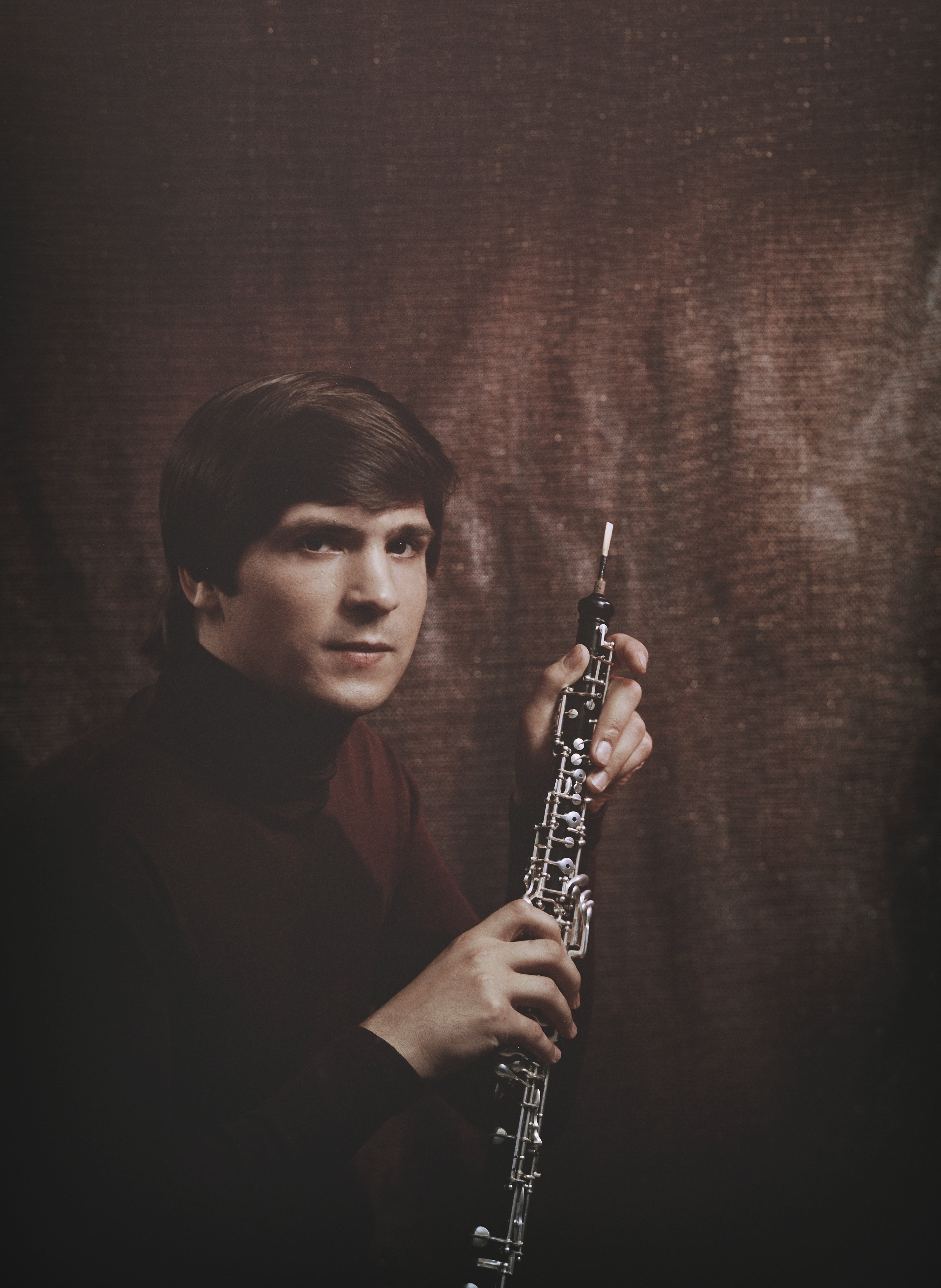 Photograph of the Finnish oboist Aale Lindgren (1951–).